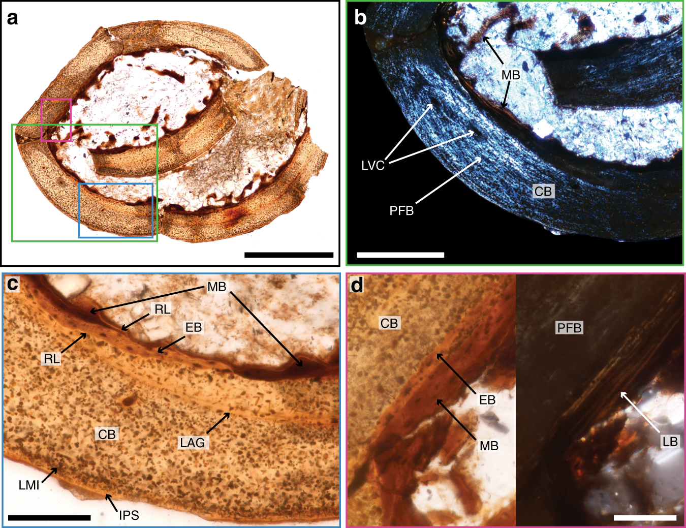 Fossil - Avimaia Schweitzerae - Histology - Medullary Bone[1][2][3] Histology reveals the presence of small amounts of medullary bone (MB) in the femur of Avimaia. Natural light (a, c, d—left image) and polarized light microscopy (b, d—right image) show slow growing, parallel-fibered and almost avascular cortical bone (CB), and small, endosteal trabeculae of lamellar MB (which are much darker than the CB and the endosteal bone, EB) extending into the medullary cavity. Other abbreviations: IPS intact periosteal surface, LAG line of arrested growth, LB lamellar bone, LMI layer of microbial invasion, LVC longitudinal vascular canal, PFB parallel-fibered bone, RL resorption line. Scale bar is 500 μm in a, 200 μm in b, 100 μm in c, and 50 μm in d References ↑ Bailleul, Alida M. (20 March 2019). "An Early Cretaceous enantiornithine (Aves) preserving an unlaid egg and probable medullary bone". Nature Communications 10. Retrieved on 22 March 2019. ↑ Pickrell, John (20 March 2019). "Unlaid egg discovered in ancient bird fossil". Science. Retrieved on 22 March 2019. ↑ Greshko, Michael (20 March 2019). "In a first, fossil bird found with unlaid egg - “I couldn’t even sleep at night,” the lead paleontologist says of her reaction to the discovery.". National Geographic Society. Retrieved on 22 March 2019.